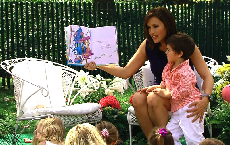 Actress Mariska Hargitay reads " Oh, the Places You'll Go!" by Dr. Seuss at the 2010 White House Easter Egg Roll.